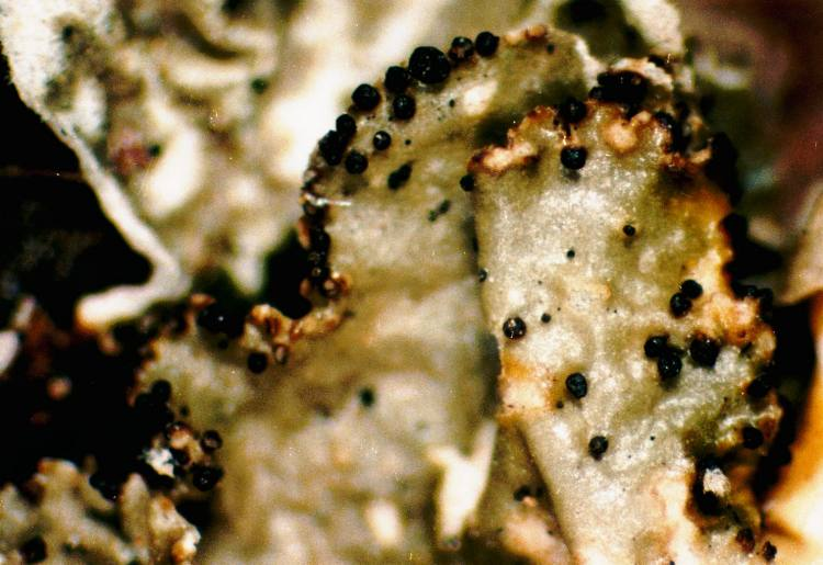 Tuckermannopsis orbata (Nyl.) M.J. Lai, 1980 (photograph of a herbarium specimen showing prominent black pycnidia on the margins of the lobes) Growing on Thuja branches at Evergreen Beach, E side of US-23 opposite Sper Road, Presque Isle County, Michigan, USA; collected and identified by Richard E. Riefner (No. 81-469, 14 Jul 1981); specimen is now in the Lichen Herbarium of the New York Botanical Garden.